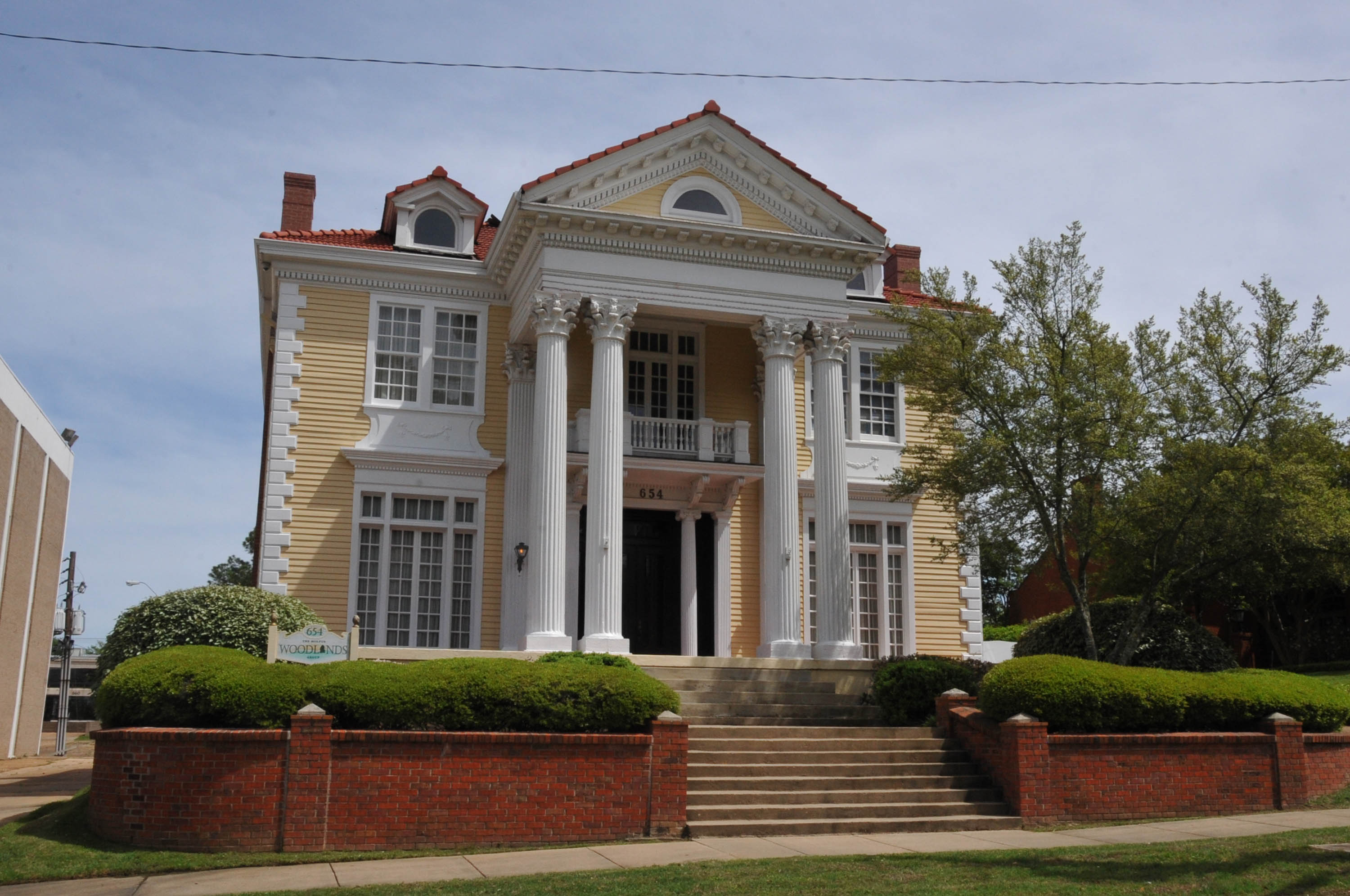 1907 COLONIAL REVIVAL